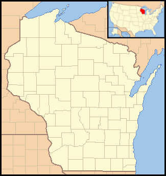 Locator Map of Wisconsin, United States